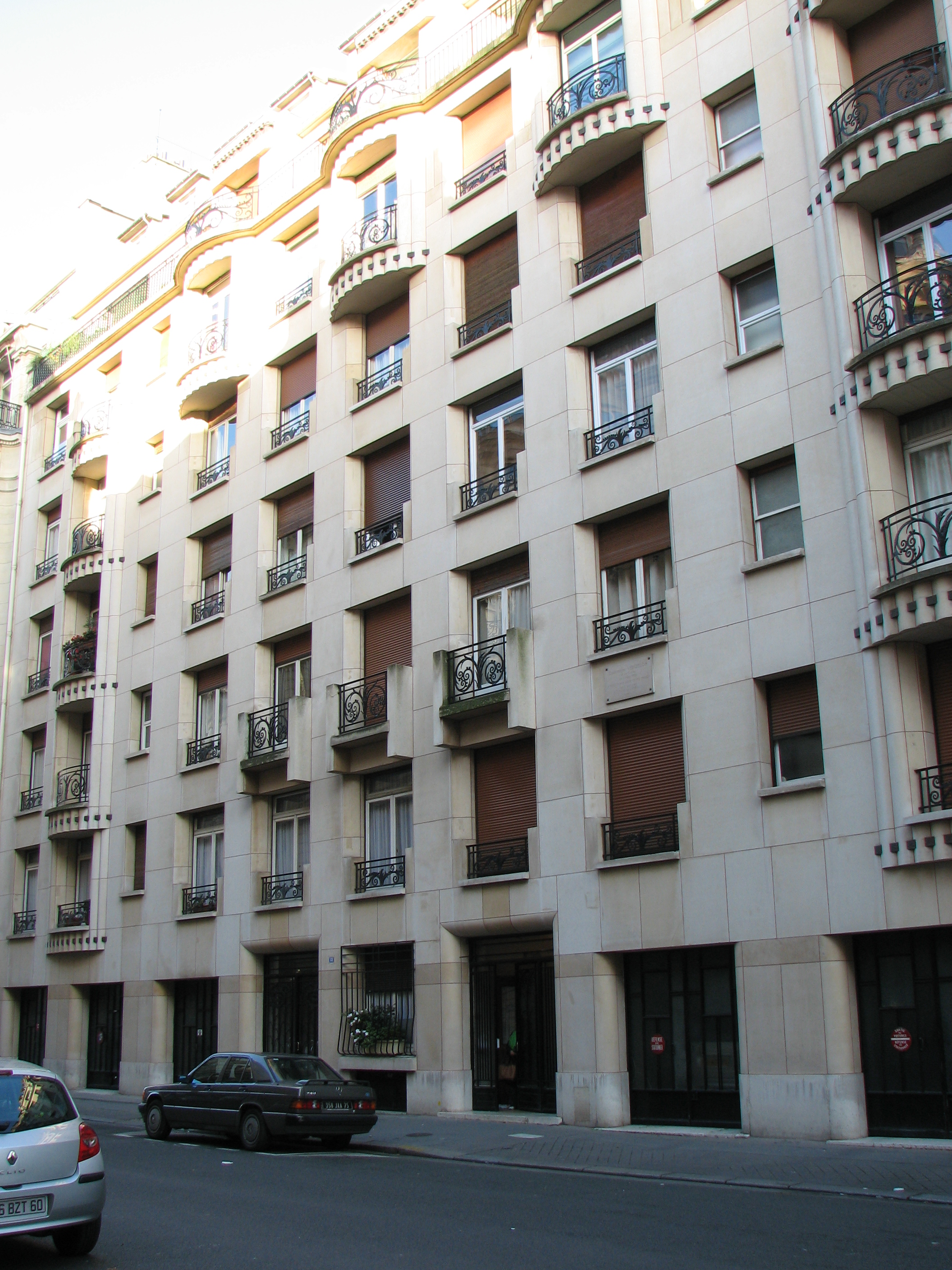 Building 22 rue Beaujon in Paris where Eleftherios Venizelos died.